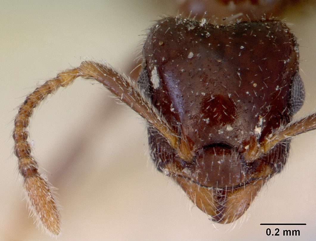 Head view of ant Peronomyrmex greavesi specimen casent0172264.